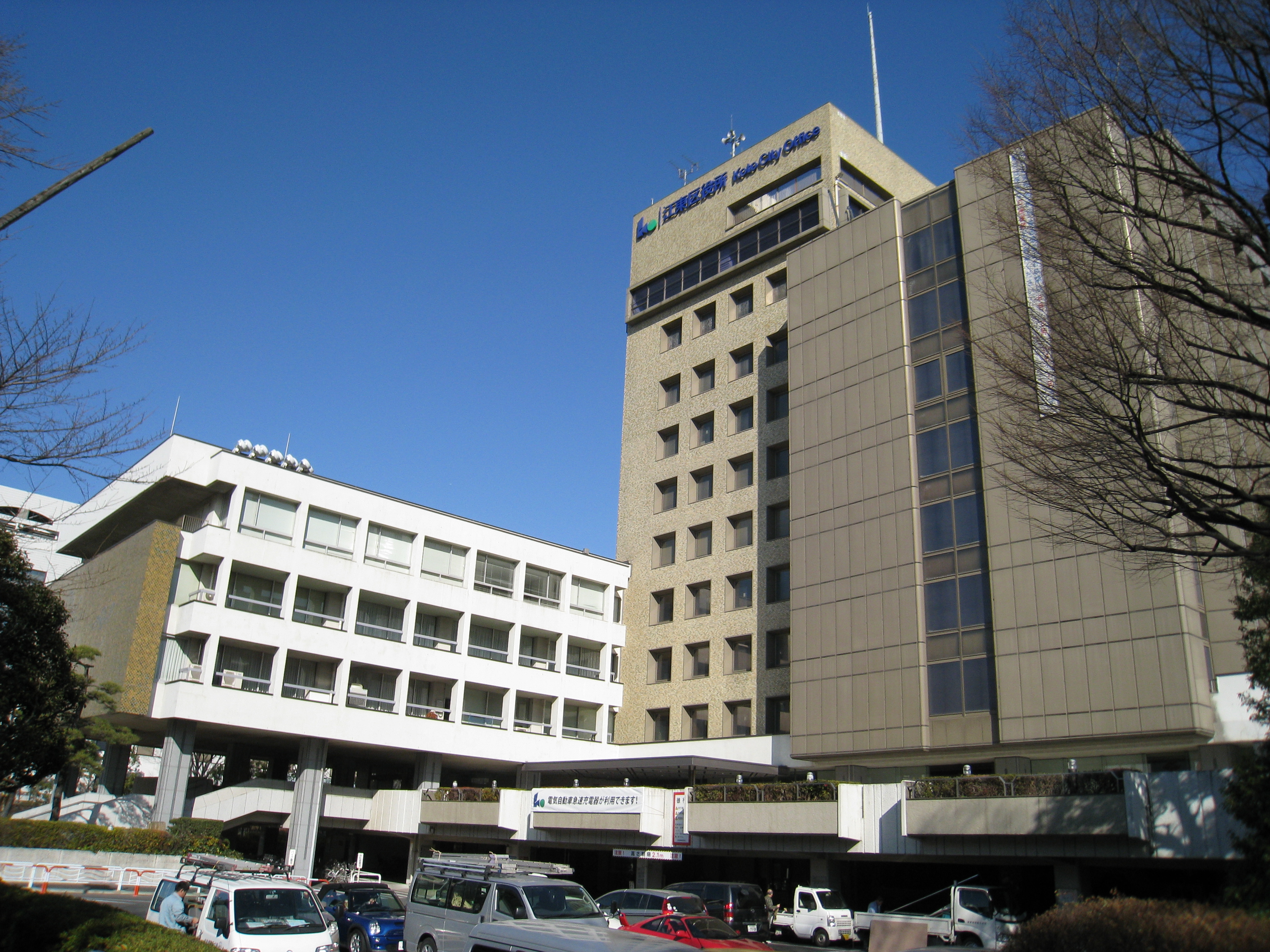 Koto City Office